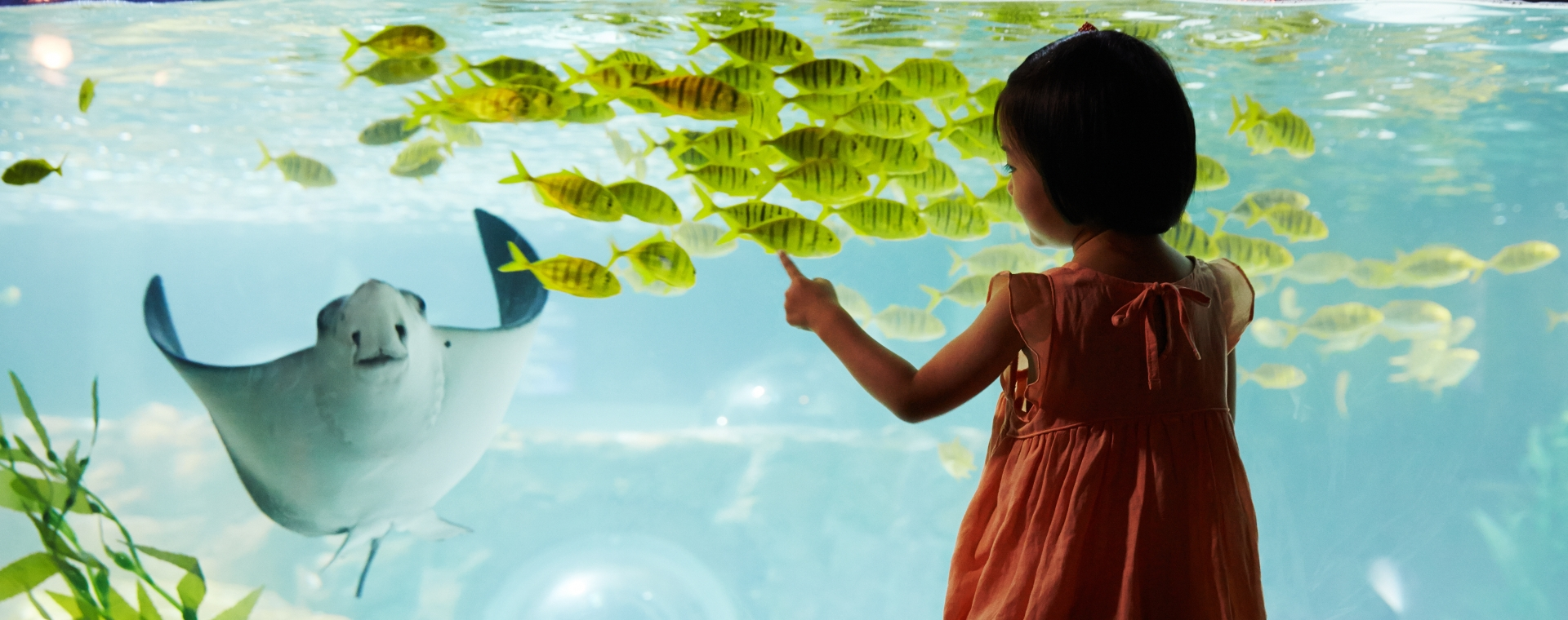 Stingray in the SEA LIFE Busan Aquarium, South Korea